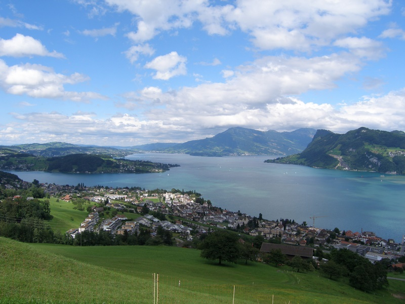 Hergiswil, Switzerland, viewed from the foot of Mount Pilatus.